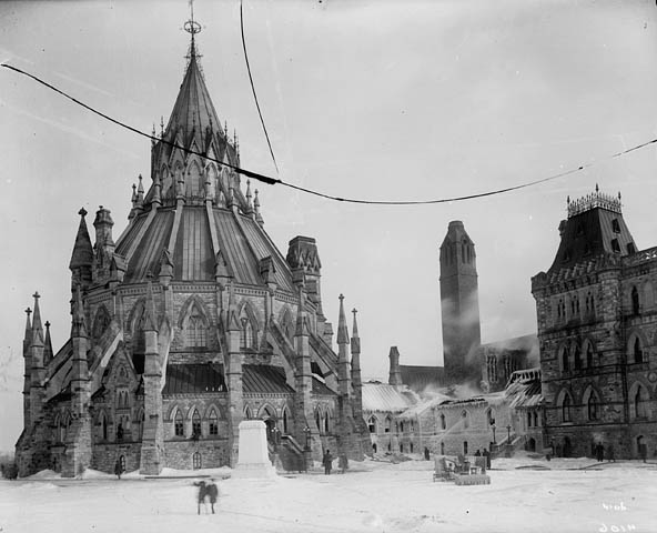 View of the Library of Parliament and the Centre Block on the day after the Centre Block fire.